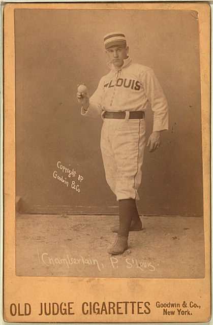 Elton "Icebox" Chamberlain, St. Louis Browns, Old Judge Cabinets (N173)